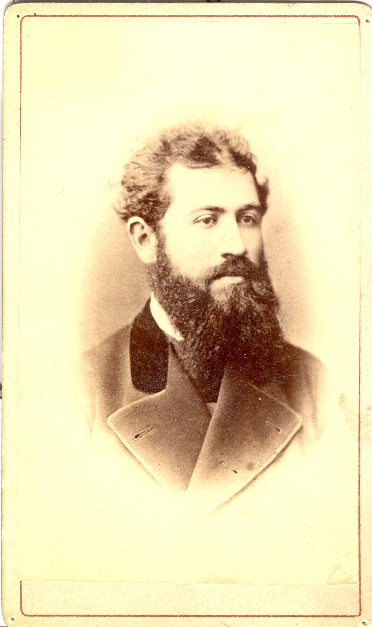 Photograph of Đorđe Đoka Mijatović (1848-1878), Serbian doctor and first socialist in Novi Sad (1875). Srpski (latinica): Fotografija Đorđa Đoke Mijatovića (1848-1878), lekara i prvog socijaliste u Novom Sadu (1875).